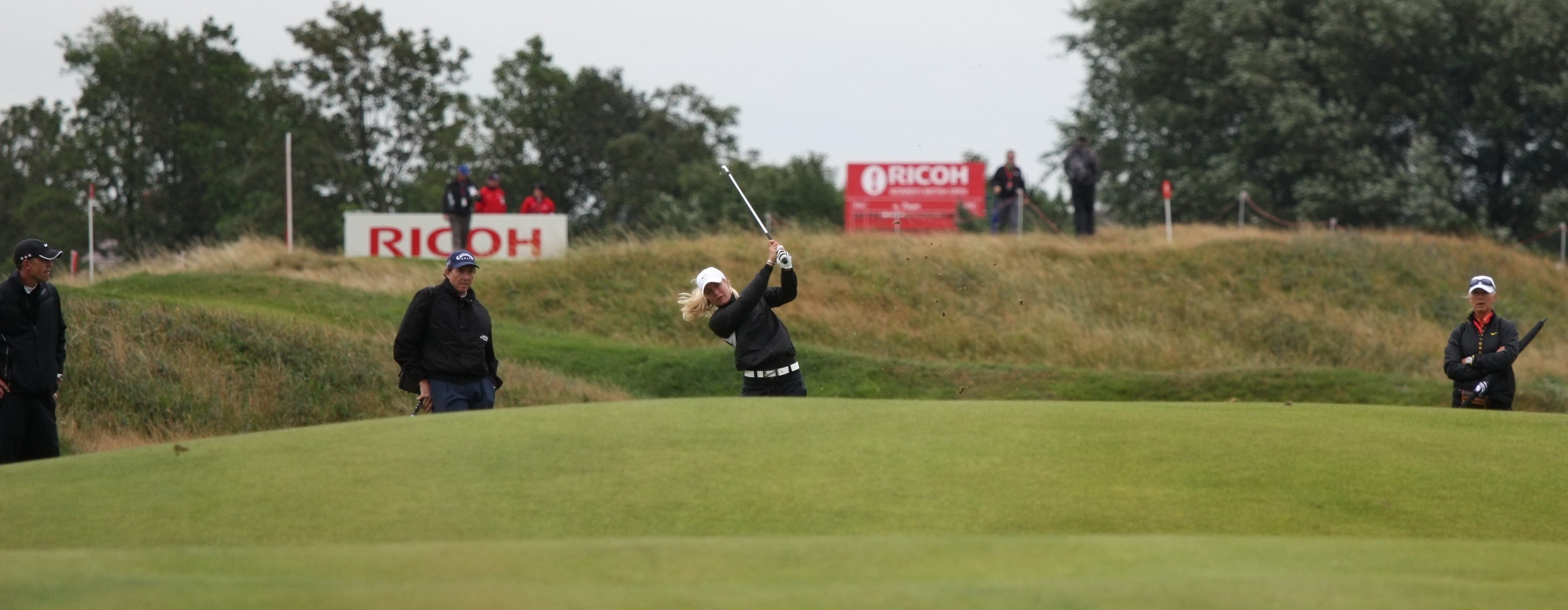 LYTHAM ST ANNES, UNITED KINGDOM - JULY 29: Suzann Pettersen of Norway hits her approach shot to the 4th green during third practice round before 2009 Ricoh Women's British Open held at Royal Lytham & St Annes on July 28, 2009 in Lytham St Annes, England. Pettersen is accompanied by (from left) her caddie David Brooker, her coach David Leadbetter, and her mother Mona Pettersen. (Photo by Wojciech Migda)